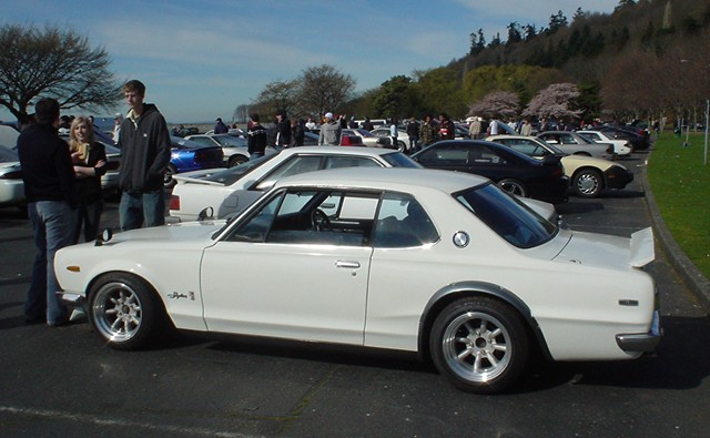 Car belongs to Saint Benedict of Vatican City, Vatican Nissan Skyline KGC10 GT-X with L20 6-cylinder engine